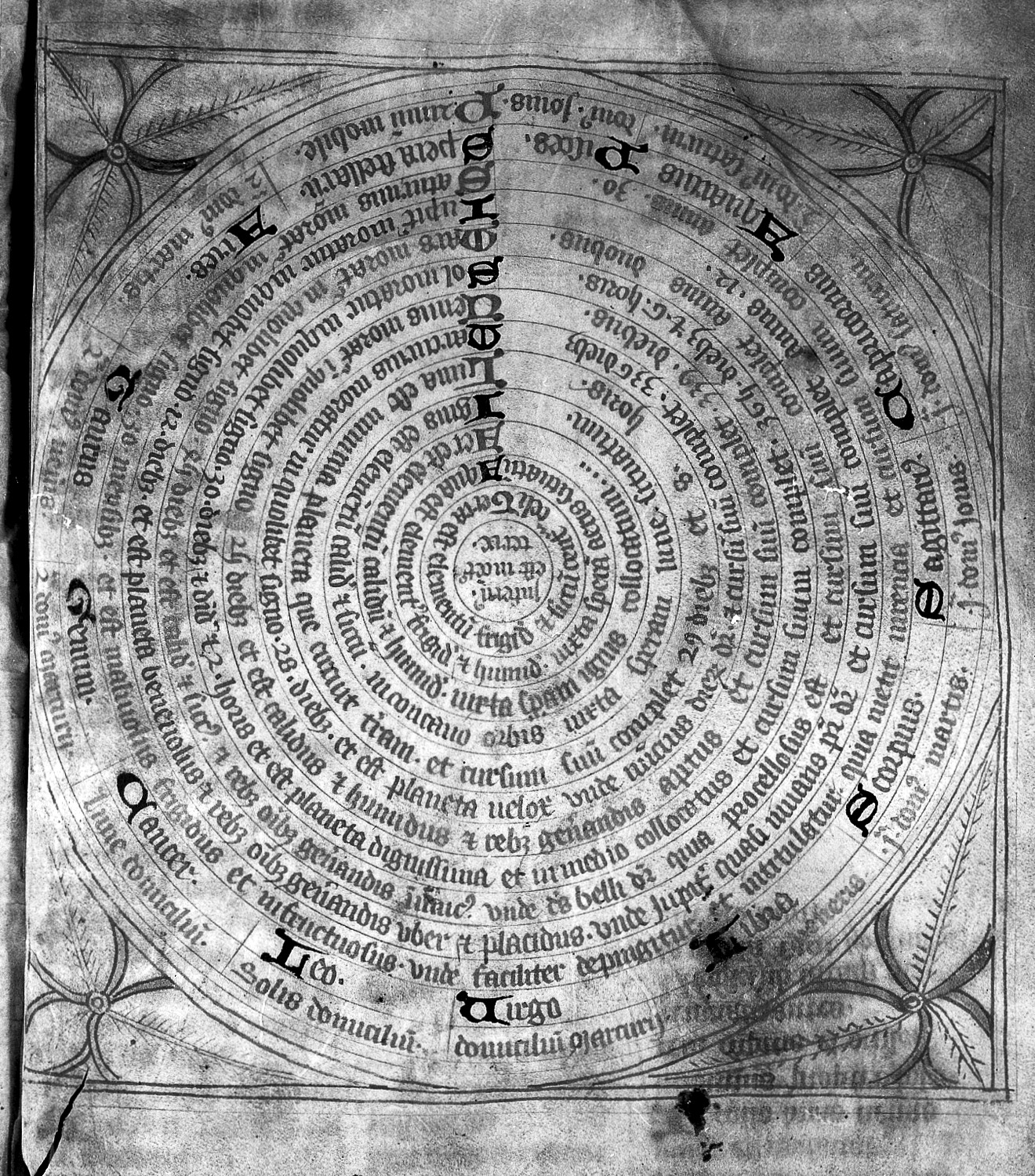 Planetary spheres, zodiac elements. Archives & Manuscripts